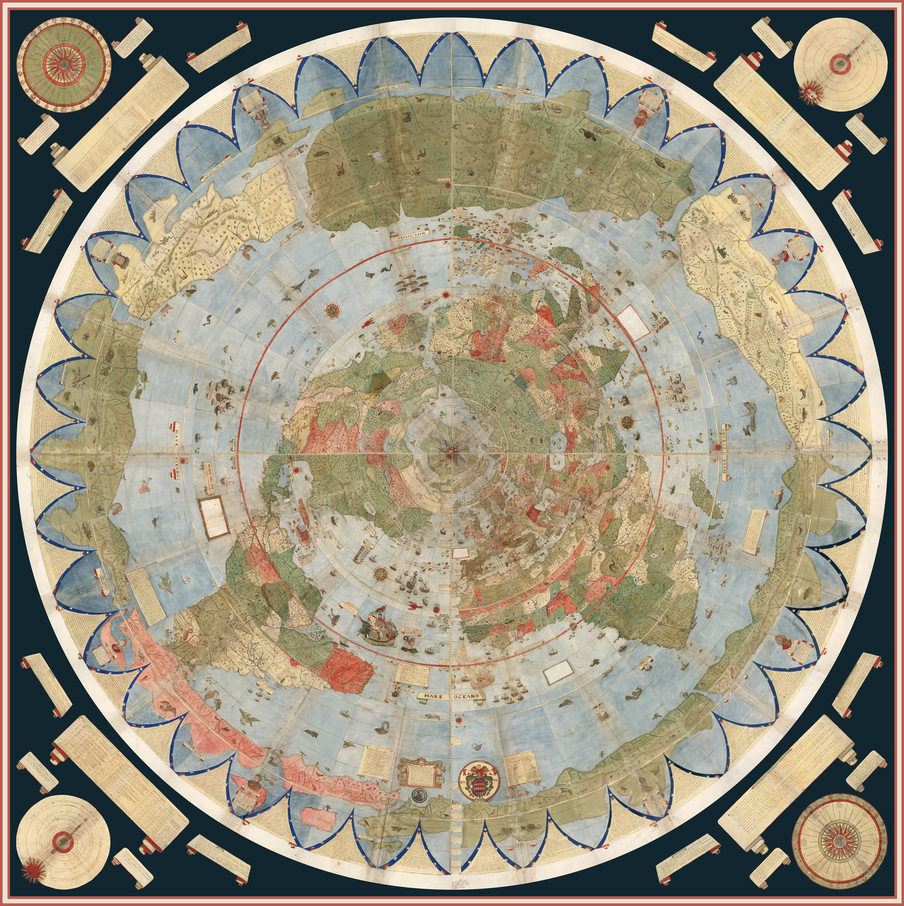 World Atlas, Tavola 1-60 (composite map). 10 foot square, this planisphere is the largest known early map of the world. Drawn in Milan, Italy